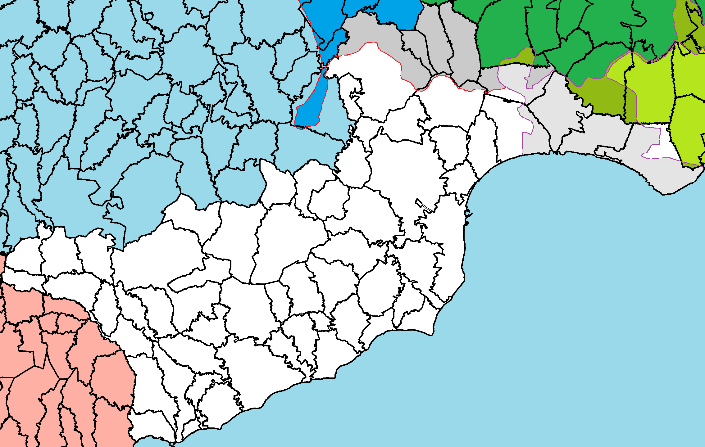 Larnaca District (de jure).